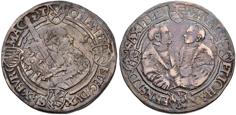 GERMANY, Sachsen-Ernestinische Linie (Kurfürstentum). Johann Friedrich I der Großmütige (the Magnanimous), with Heinrich & Johann Ernst. 1532-1547. AR Taler (39mm, 28.88 g, 9h). Buchholz mint. Dated 1540. Mantled bust of Johann Friedrich right, holding sword; four coats-of-arms around / Confronted mantled busts of Heinrich and Johann Ernst; four coats-of-arms around. Davenport 9729. VF, toned.